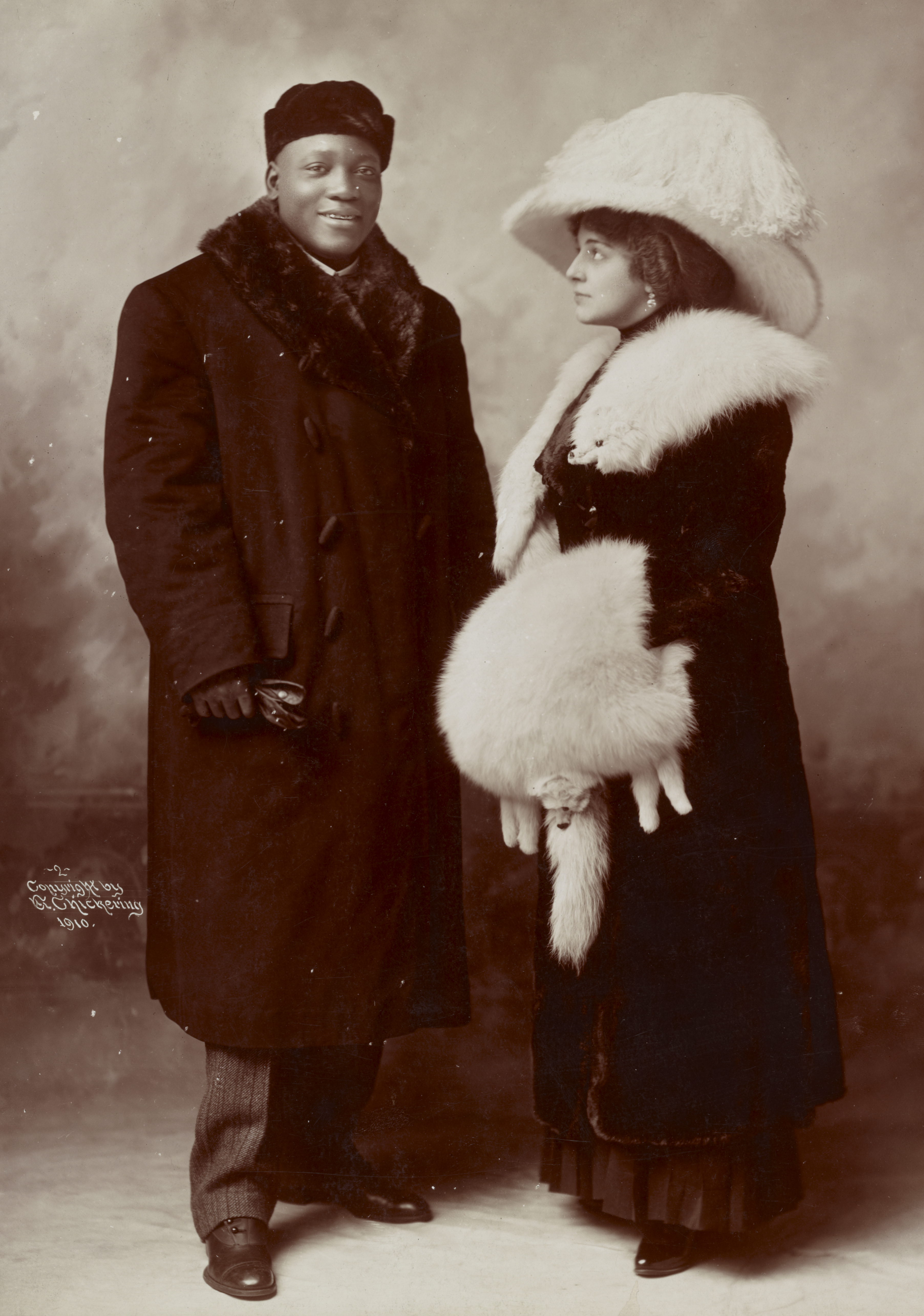 Title: Jack Johnson and his wife Etta, full-length portrait, standing, wearing winter coats Abstract/medium: 1 photographic print : gelatin silver ; on mount 13 x 10 1/8 in.